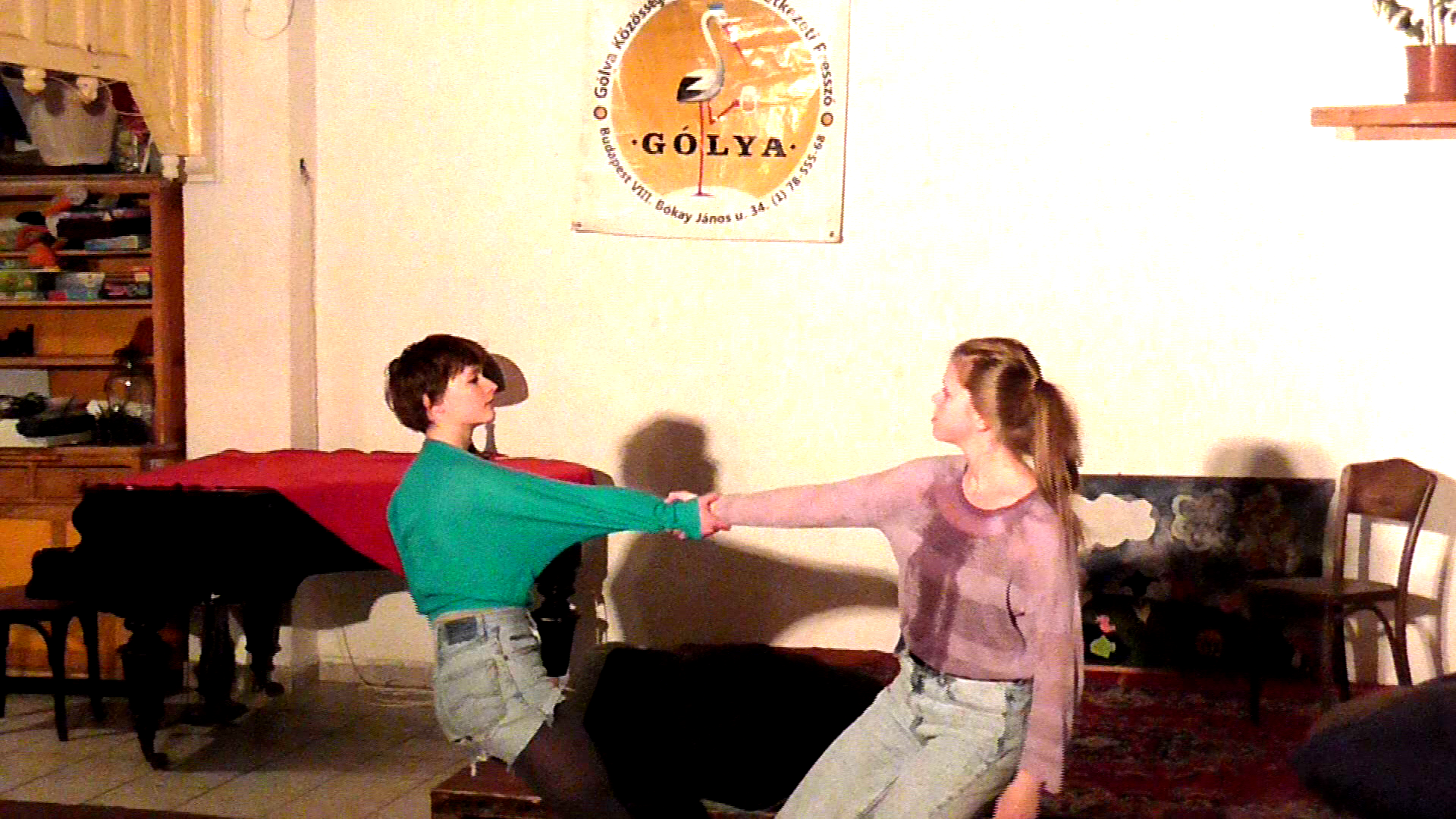 'Cooperative Substance' performance snapshot from Gólya